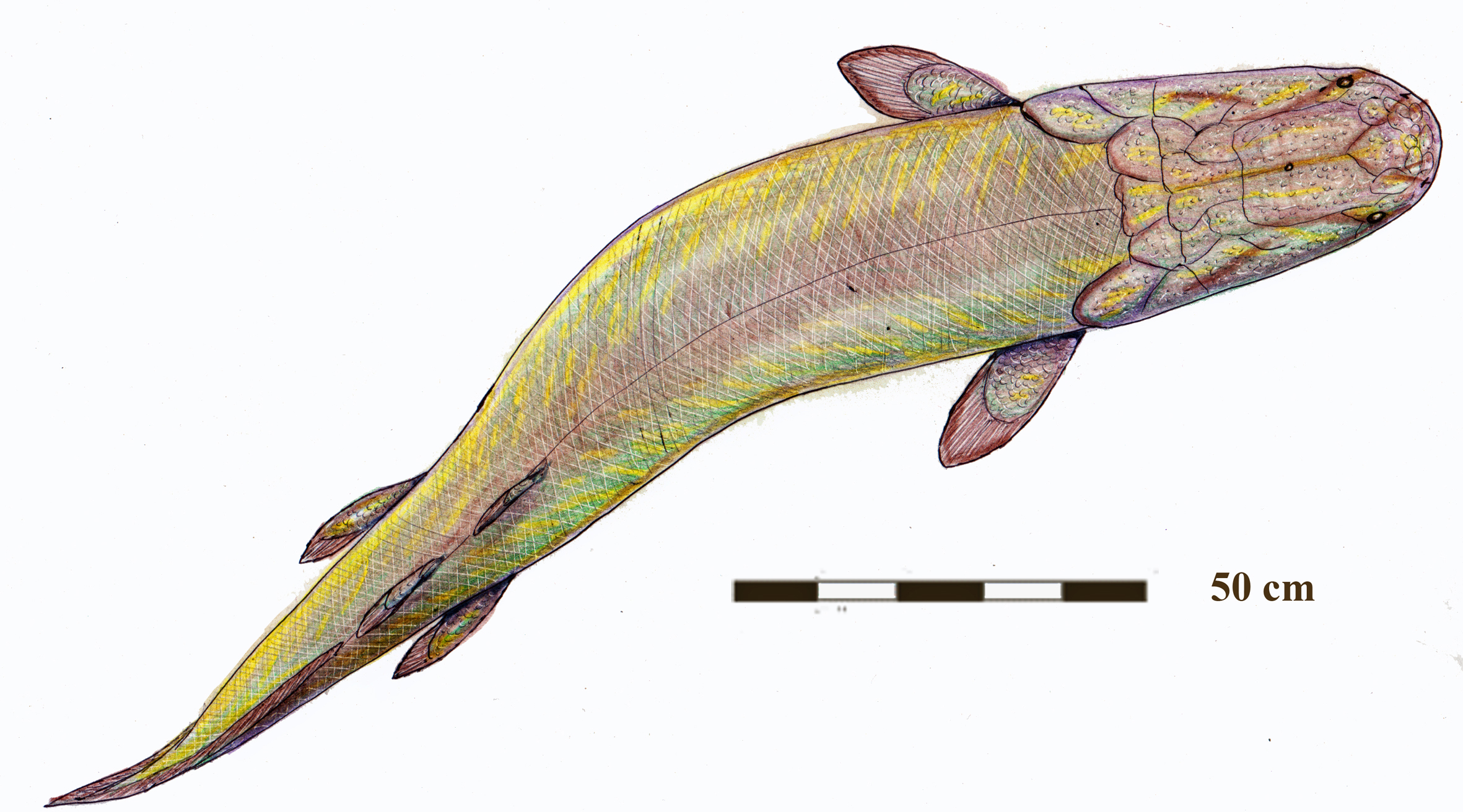 Platycephalichthys bischoffi, sarcopterygian from Late Devonian of European Russia, from above